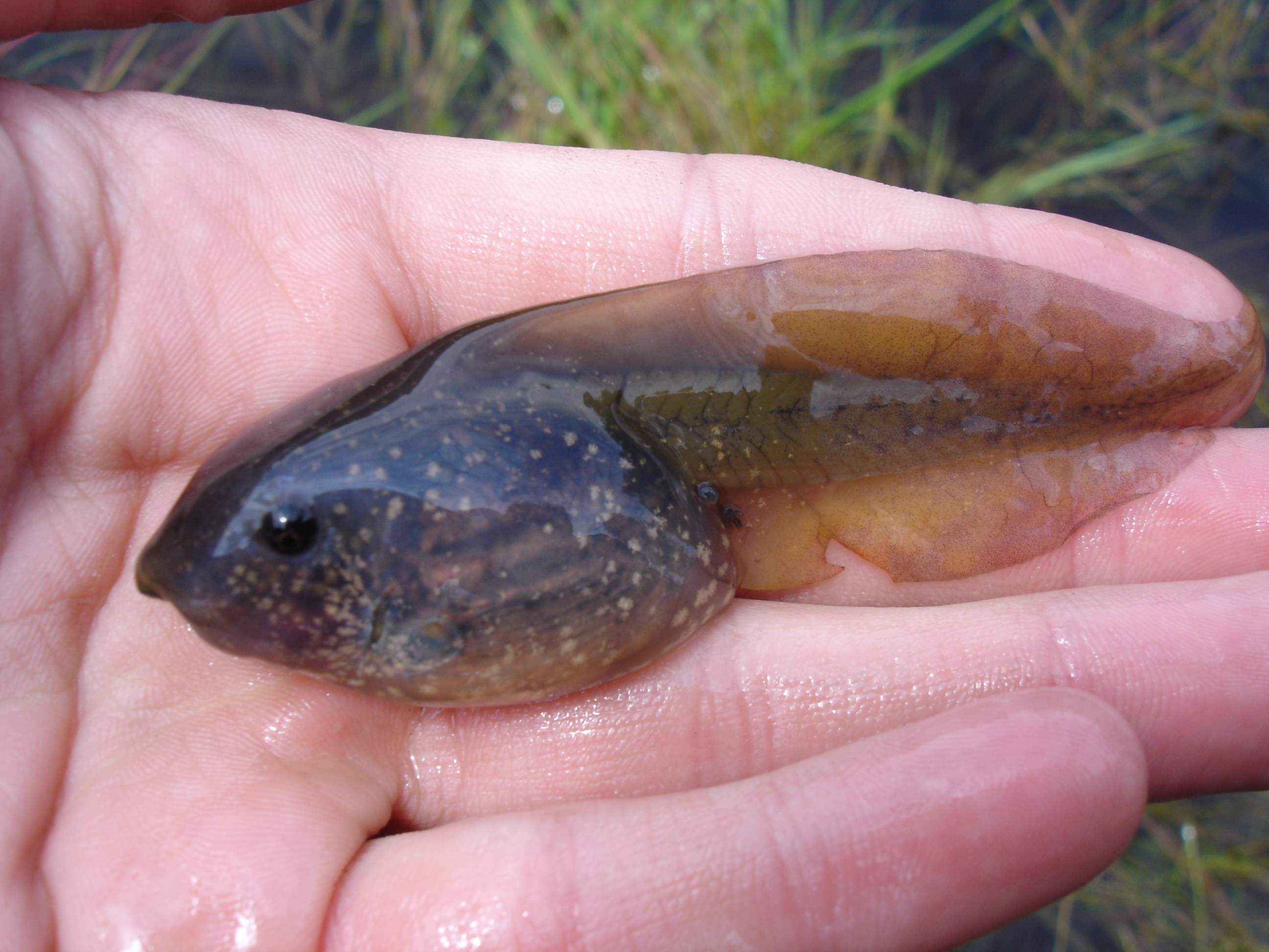 Pelobates fuscus - tadpole - Czech Republic - found in "Na Plachtě", Hradec Králové.